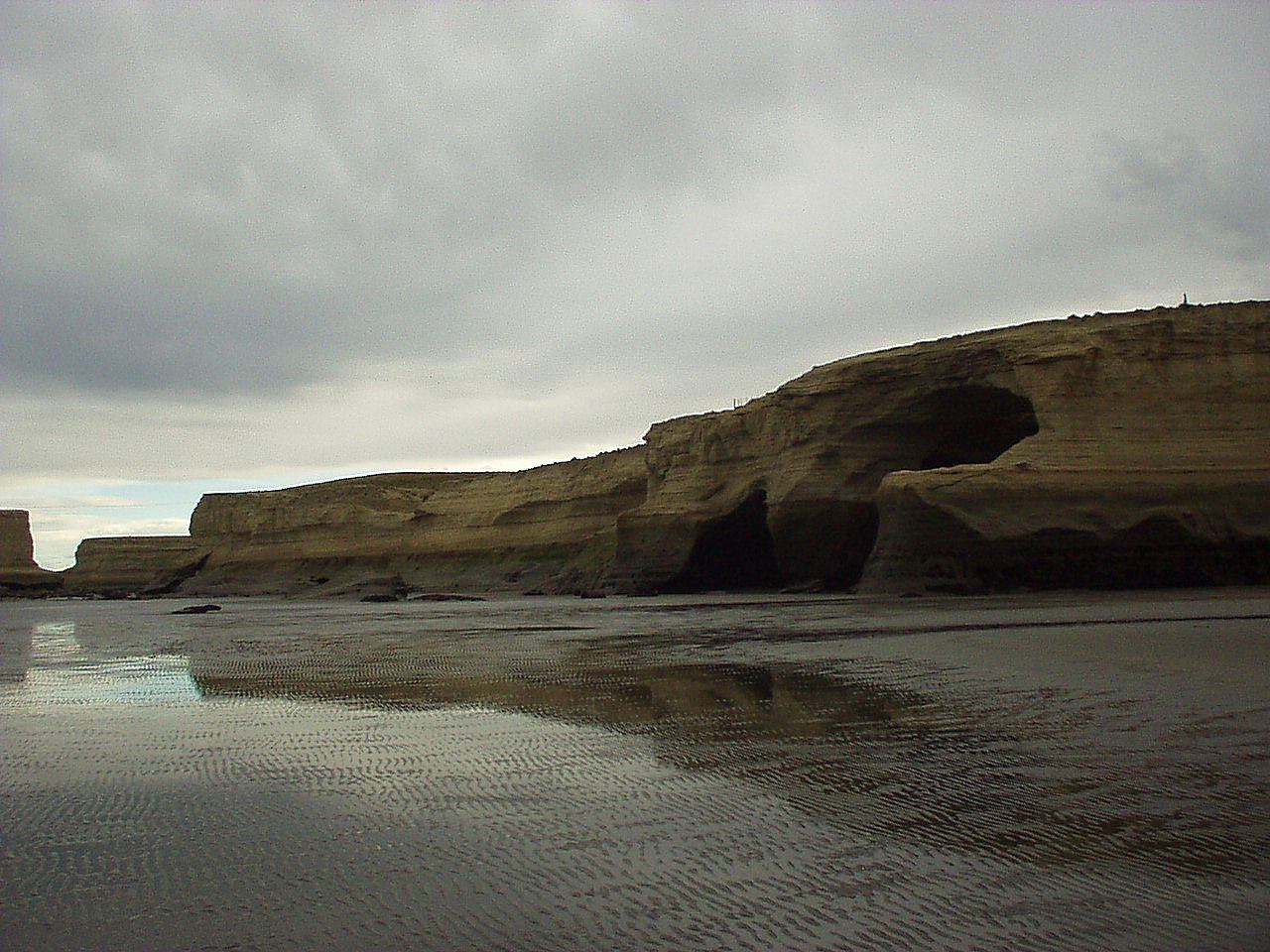 Monte Leon National Park, Santa Cruz, Argentina